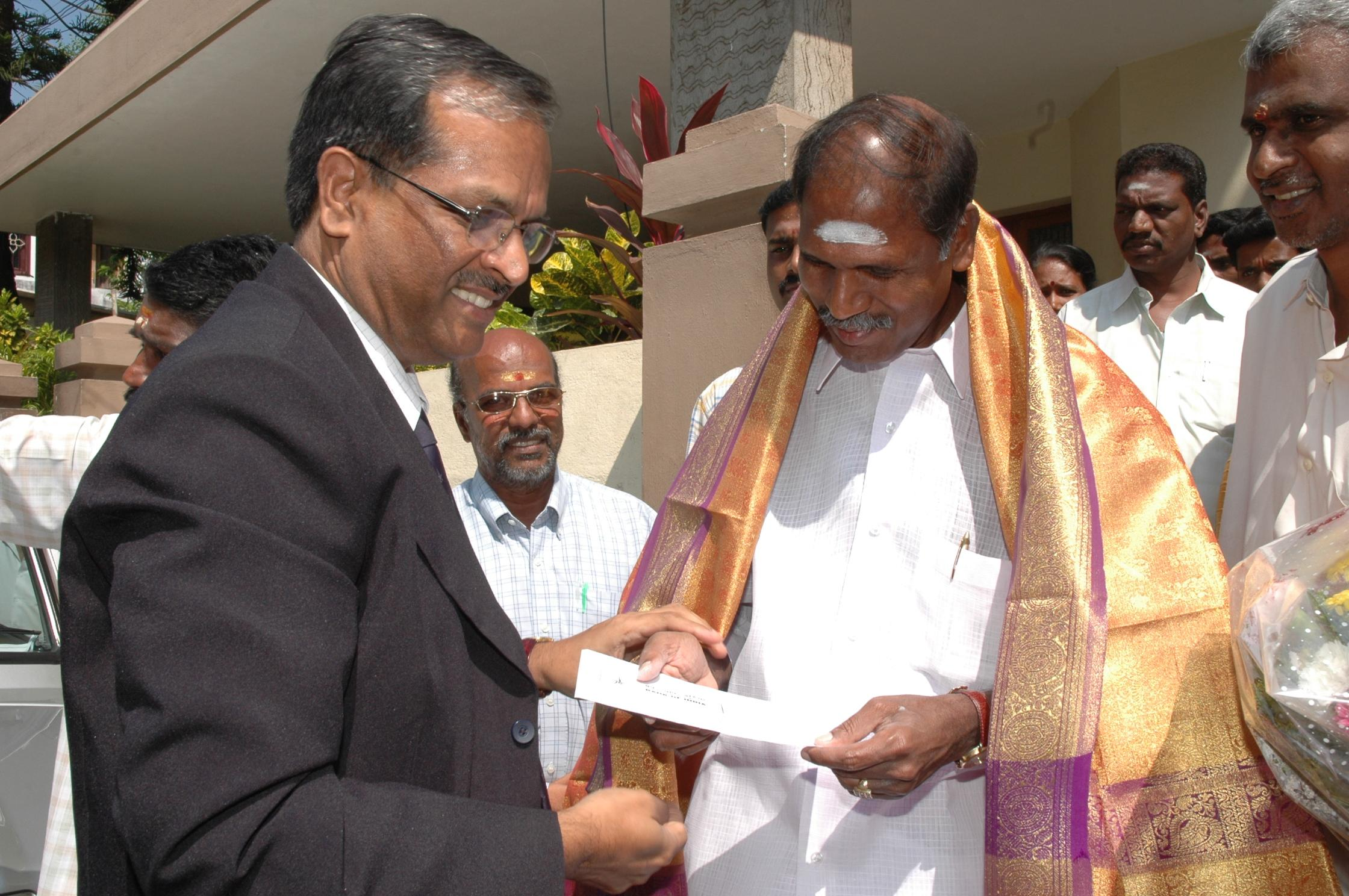 Nagesh Pydah, General Manager of the Bank of India, felicitating Chief Minister of Puducherry N. Rangaswamy